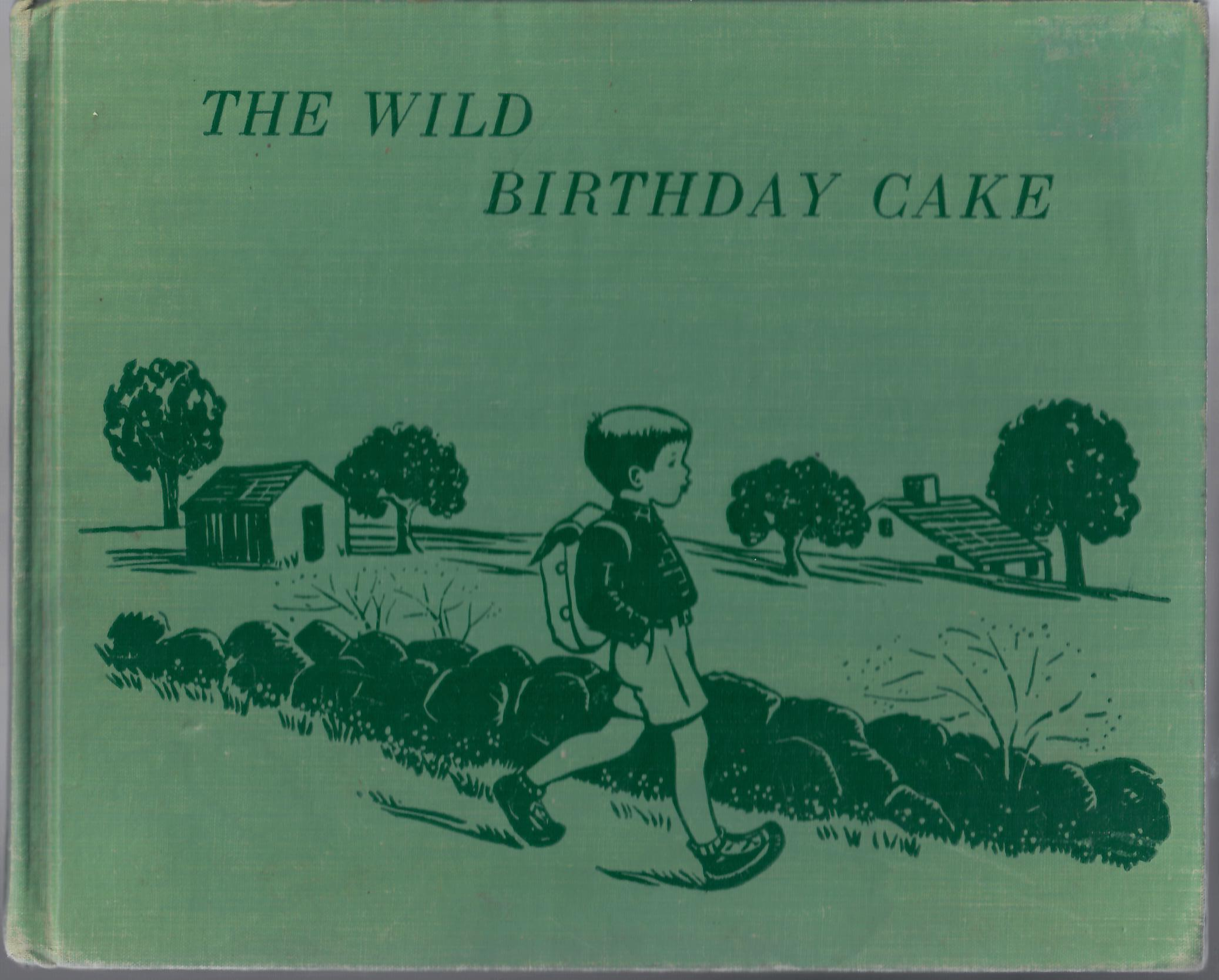 Photo of The Wild Birthday Cake